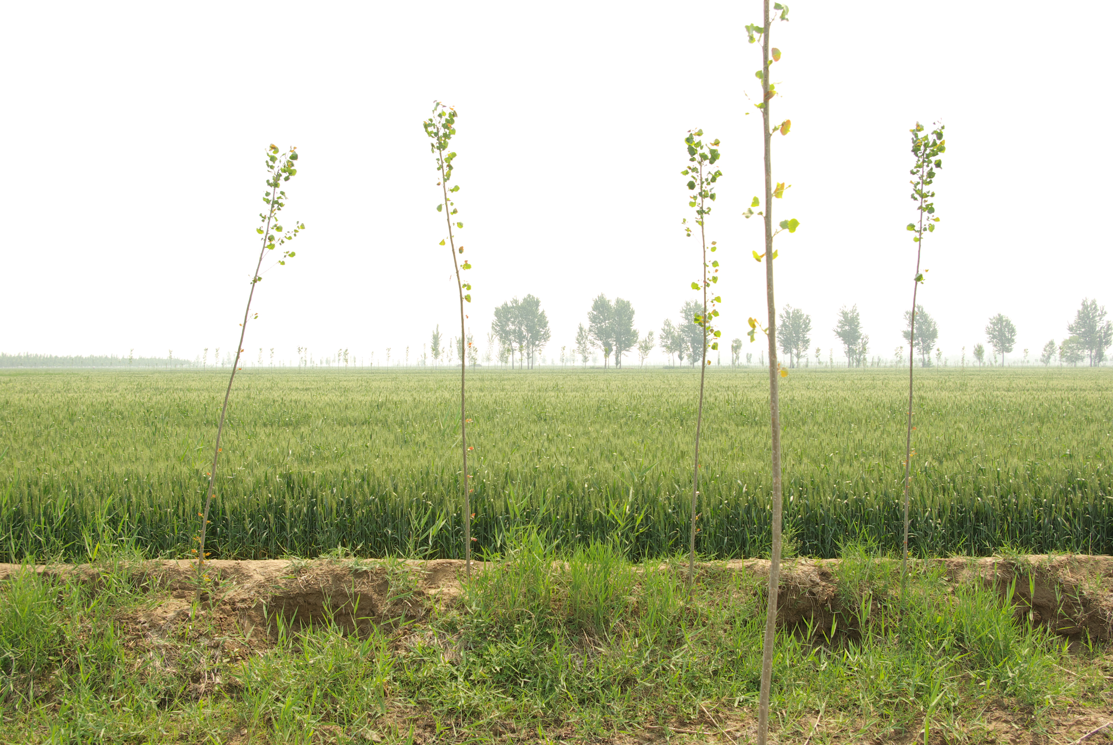 滨州市青田街道067乡道高家村附近